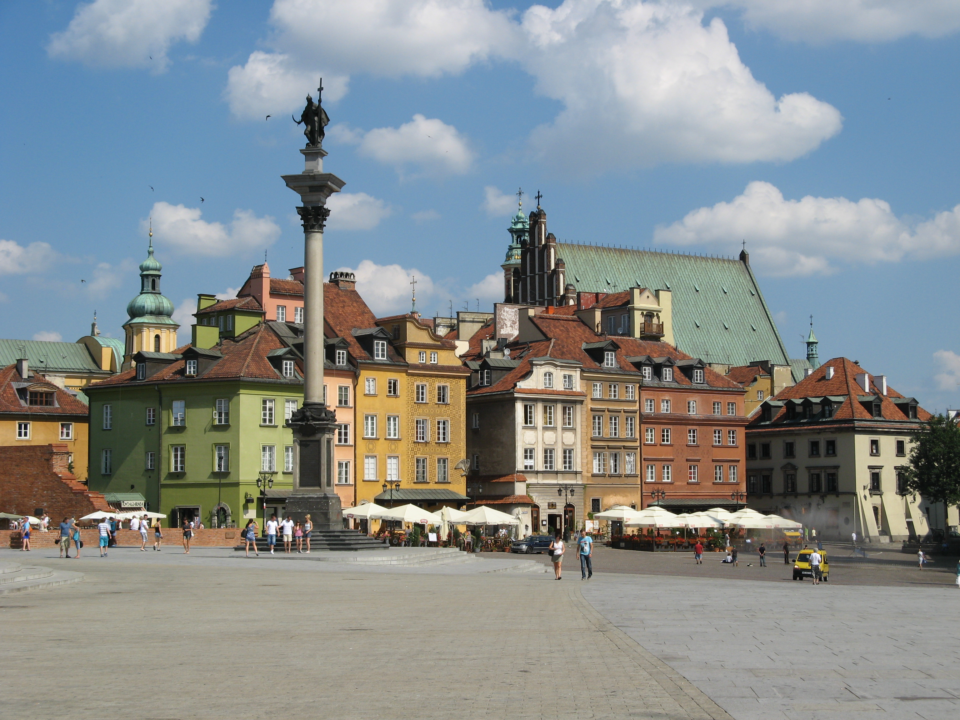 Castle Square (Plac Zamkowy) in Warsaw, Poland